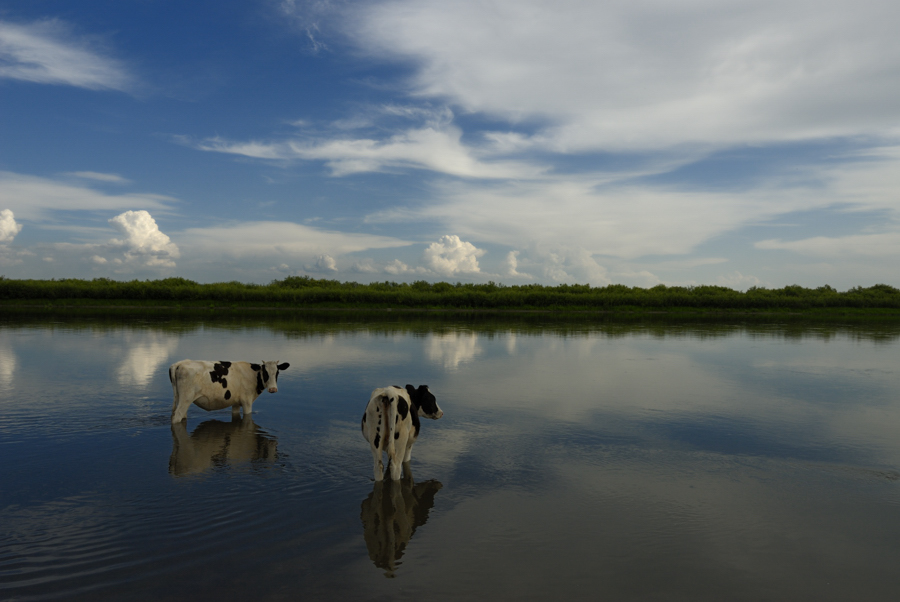 The Argun River near Tuanjie Yicun